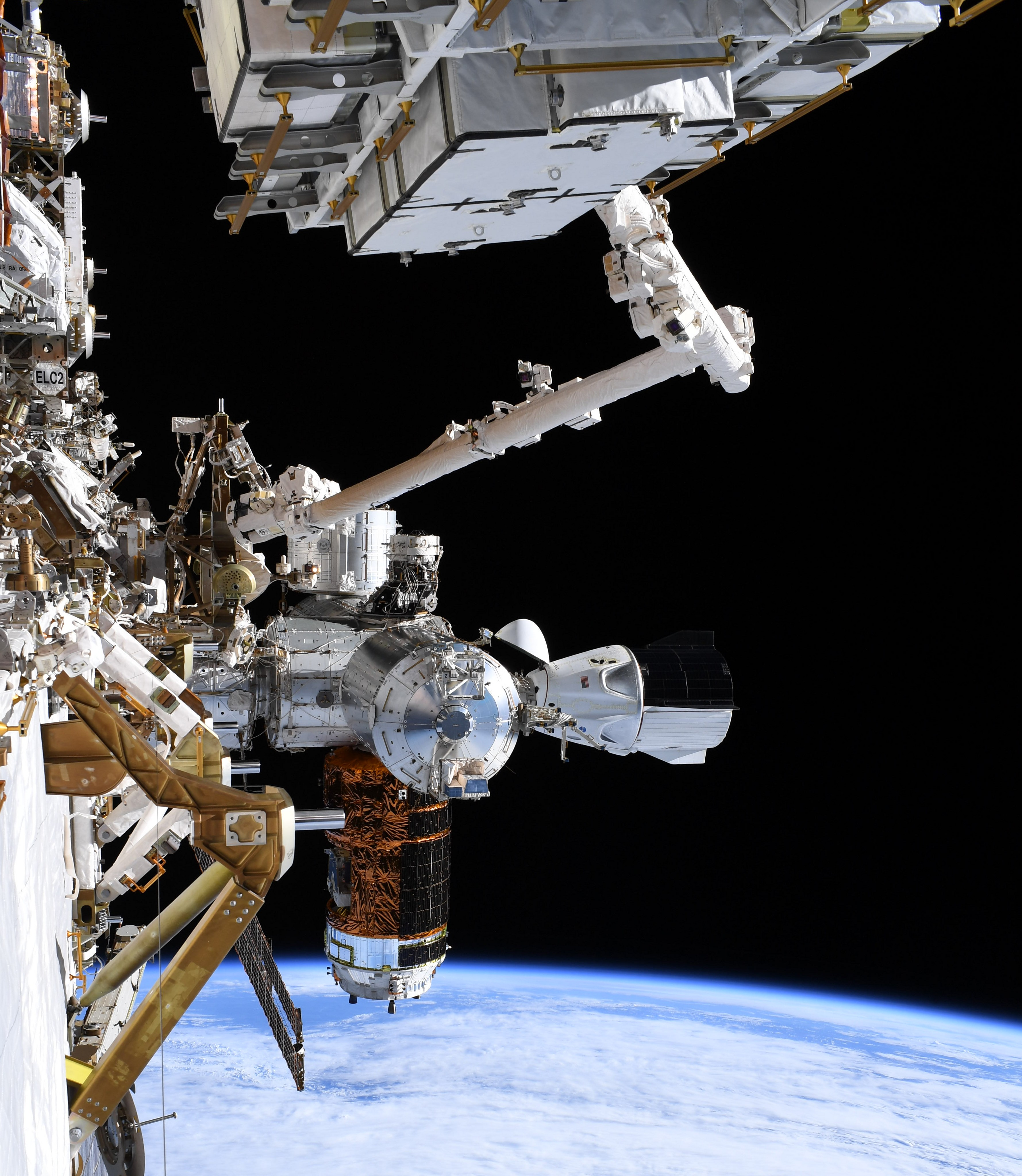 On June 26, 2020, spacewalkers Bob Behnken and Chris Cassidy completed the first of two scheduled spacewalks to replace batteries on one of two power channels on the far starboard truss (S6 Truss) of the International Space Station. In this image posted by @AstroBehnken on Twitter, he said: "Yesterday, @Astro_SEAL snapped this shot from our worksite on @Space_Station – @SpaceX ’s Crew Dragon and @JAXA_en ’s HTV in clear view. Not bad for a view while working …" During the spacewalk, Behnken and Cassidy removed five of six aging nickel-hydrogen batteries for one of two power channels for the starboard 6 (S6) truss, installed two of three new lithium-ion batteries, and installed two of three associated adapter plates that are used to complete the power circuit to the new batteries. Mission control reports that the two new batteries are working. Cassidy and Behnken are scheduled to complete the upgrade to this initial power channel in a second spacewalk on July 1.